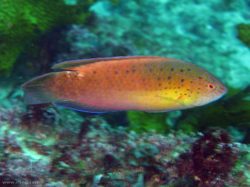 A male Black-spotted Wrasse (Austrolabrus maculatus). Statis Rock, Forster, NSW